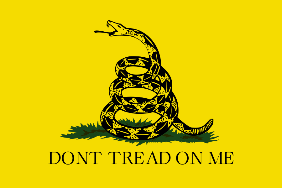 Historic Gadsden flag created by me based on existing renditions of it.